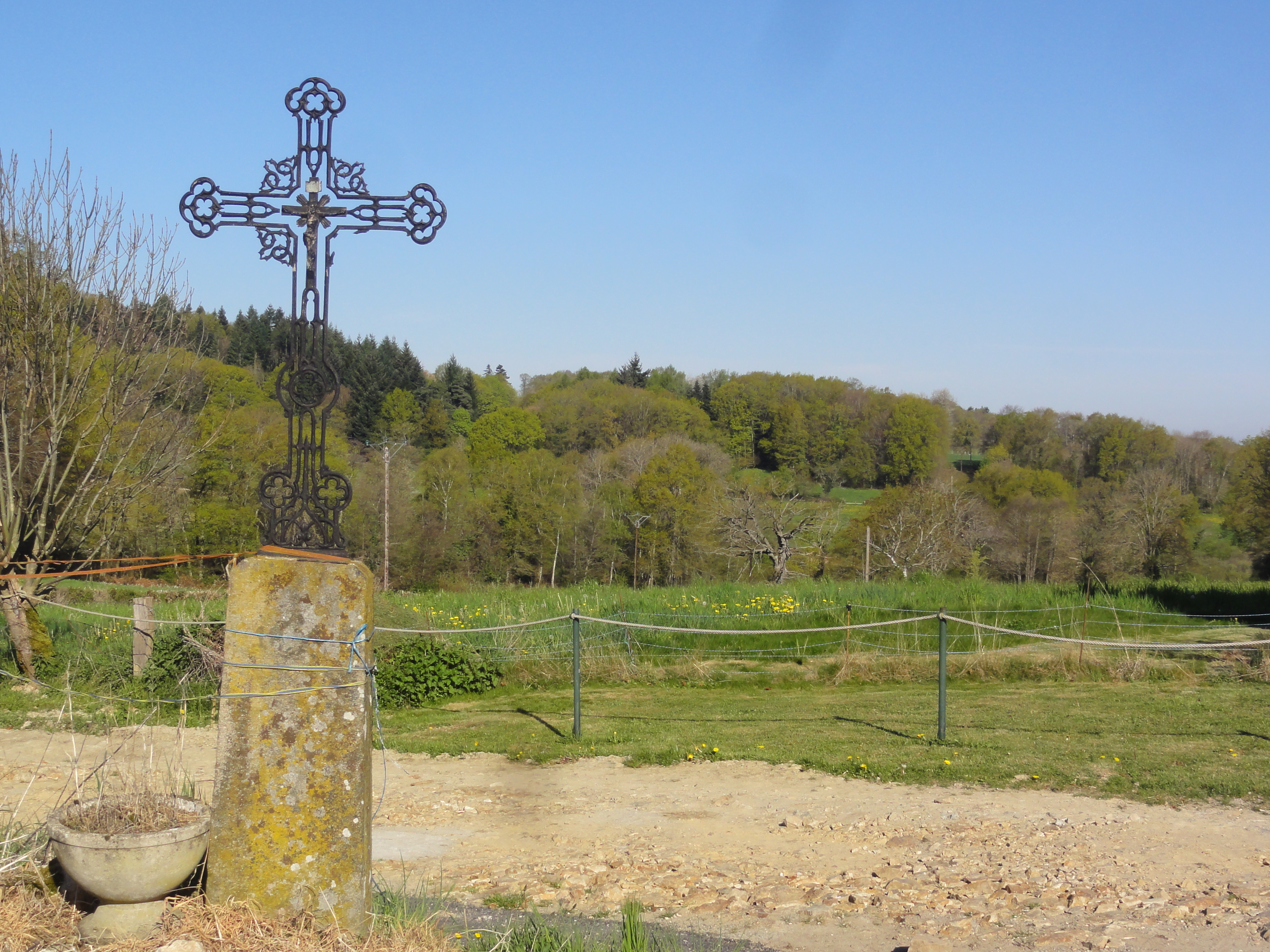 Saint-Maurice-près-Pionsat (Puy-de-Dôme) croix de chemin, Cheix